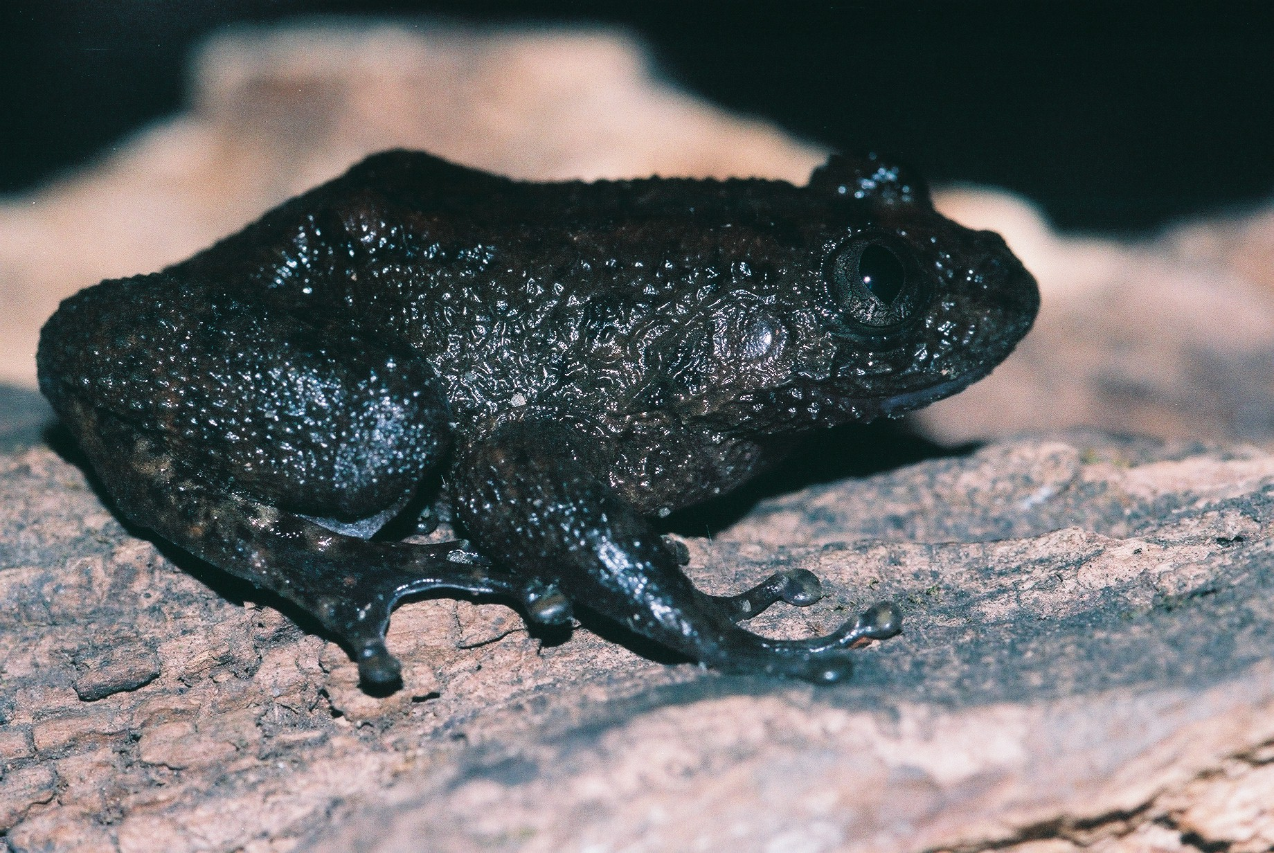 This species of Nyctibatrachus is from Phansad wild life sanctury, Maharashtra. Family Ranidae